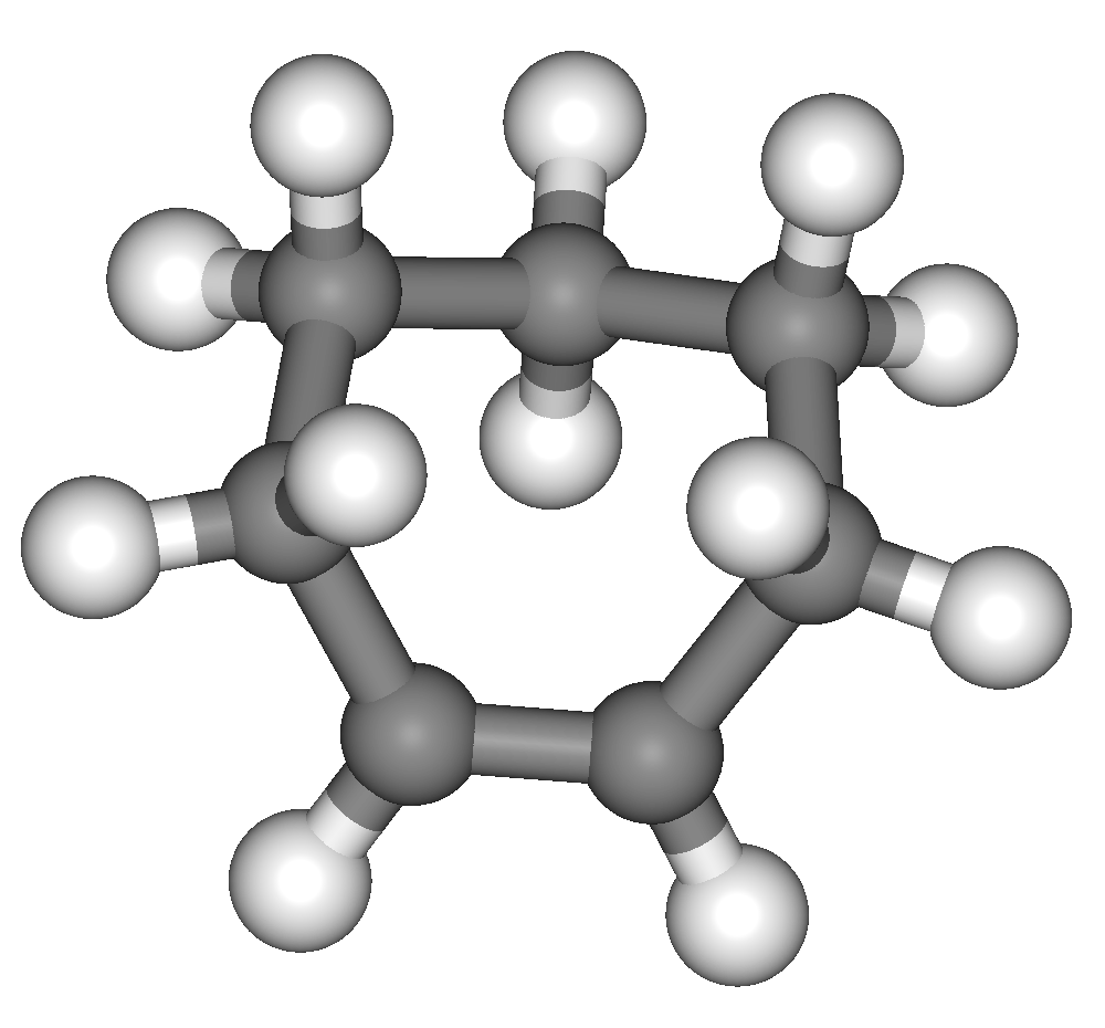 Cis-cycloheptene